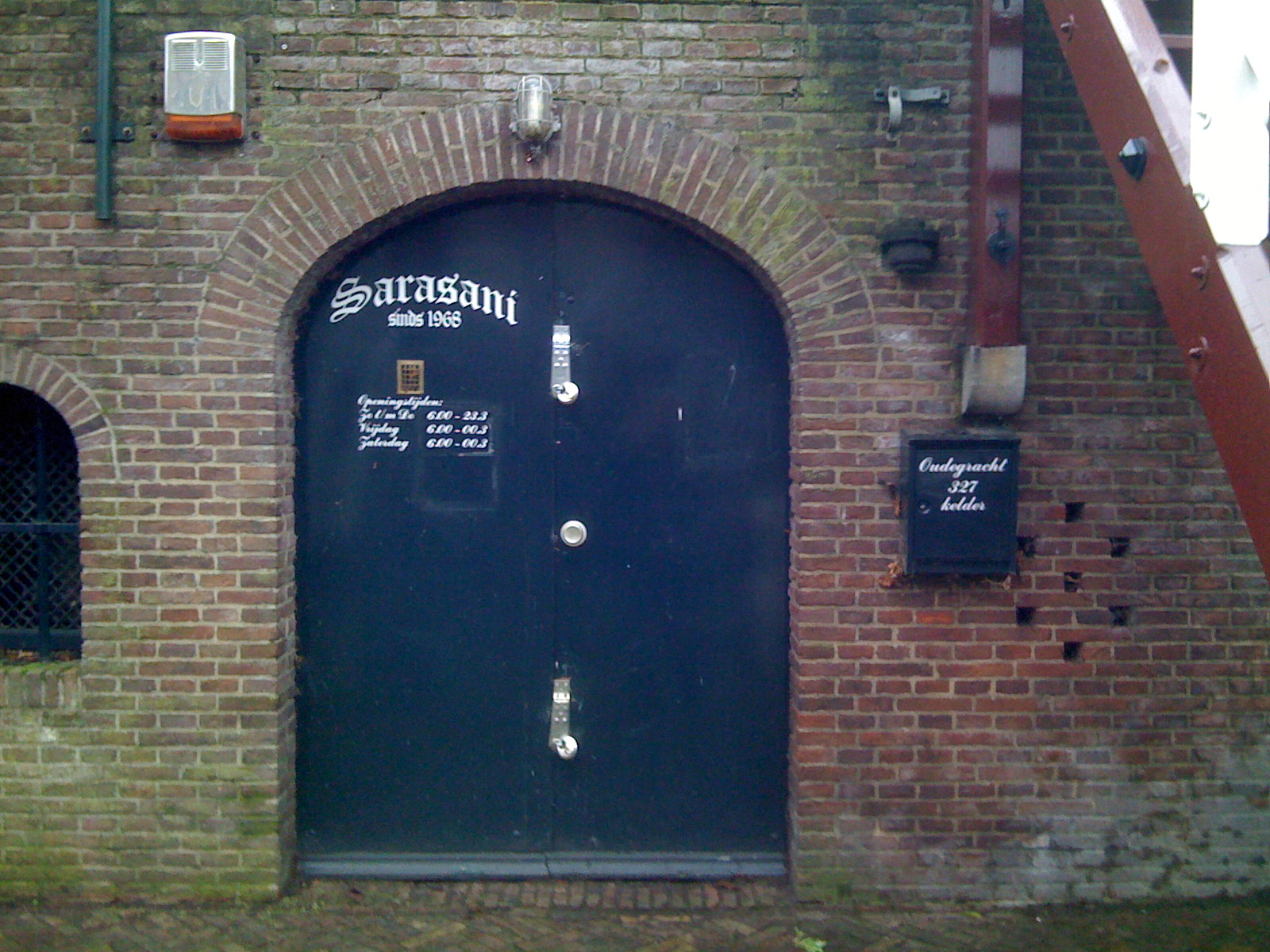 Former coffeeshop Sarasani's front door. Utrecht, NL, Oudegracht 327 warf